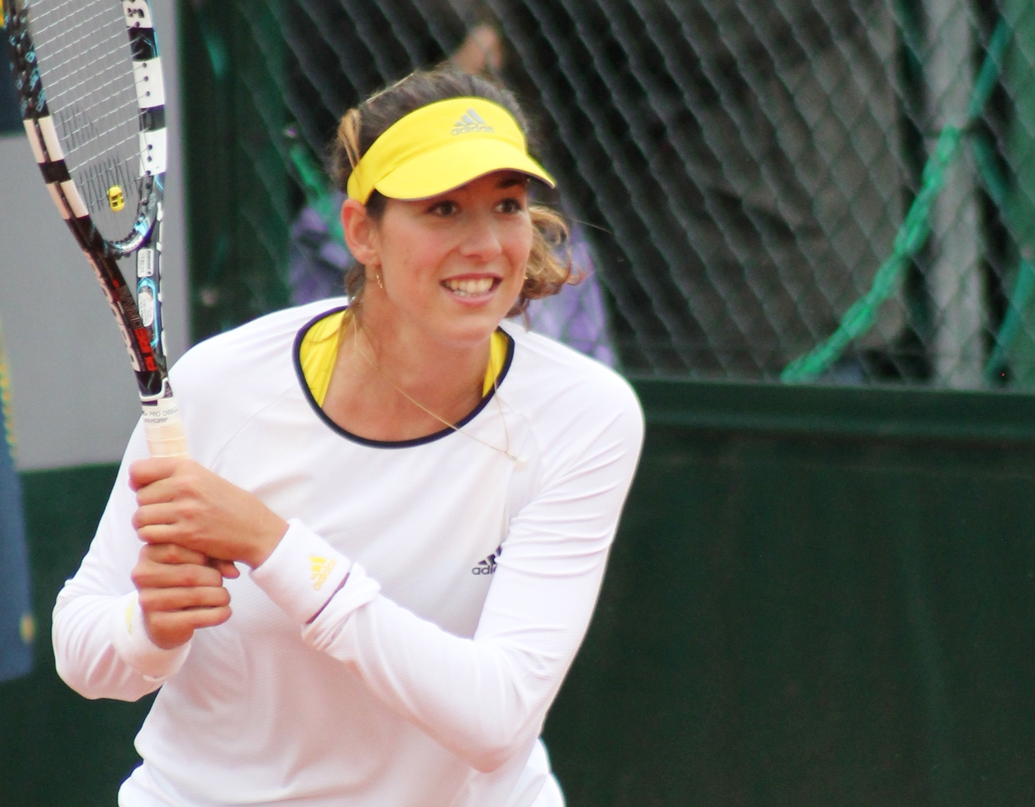 Garbine Muguruza at the 2013 French Open